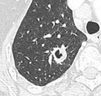 Original caption: Chest radiograph in a 59-year-old woman with a previous history of heart transplantation showed a nodule in the right upper lobe. This was confirmed on chest CT scan with axial images in lung window setting showing a 2.4 cm nodule with central cavitation. Since efforts to prove an infectious cause remained unsuccessful and the lesion persisted, wedge excision was performed. Histopathologic examination could not reveal any malignancy, but showed findings consistent with an aspergilloma.